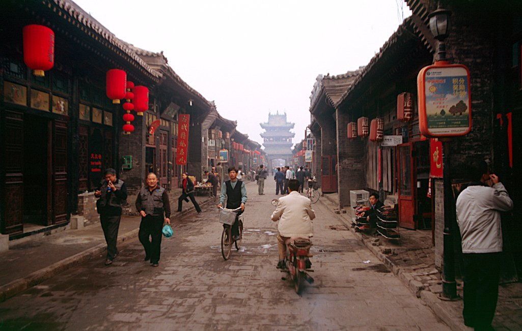 Old city streets at foggy sunrise in Pingyao (China). With City Tower at the end. Slide taken, scanned and post-processed by author with The GIMP.